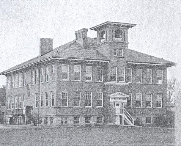 1915 photo of Vaughnsville Highschool after consolidating with Rimer